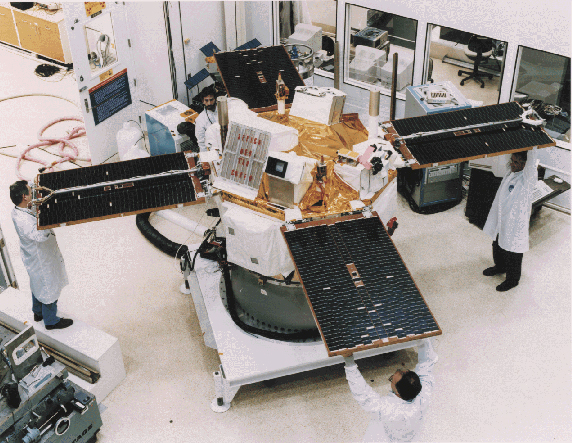 ACE spacecraft * image